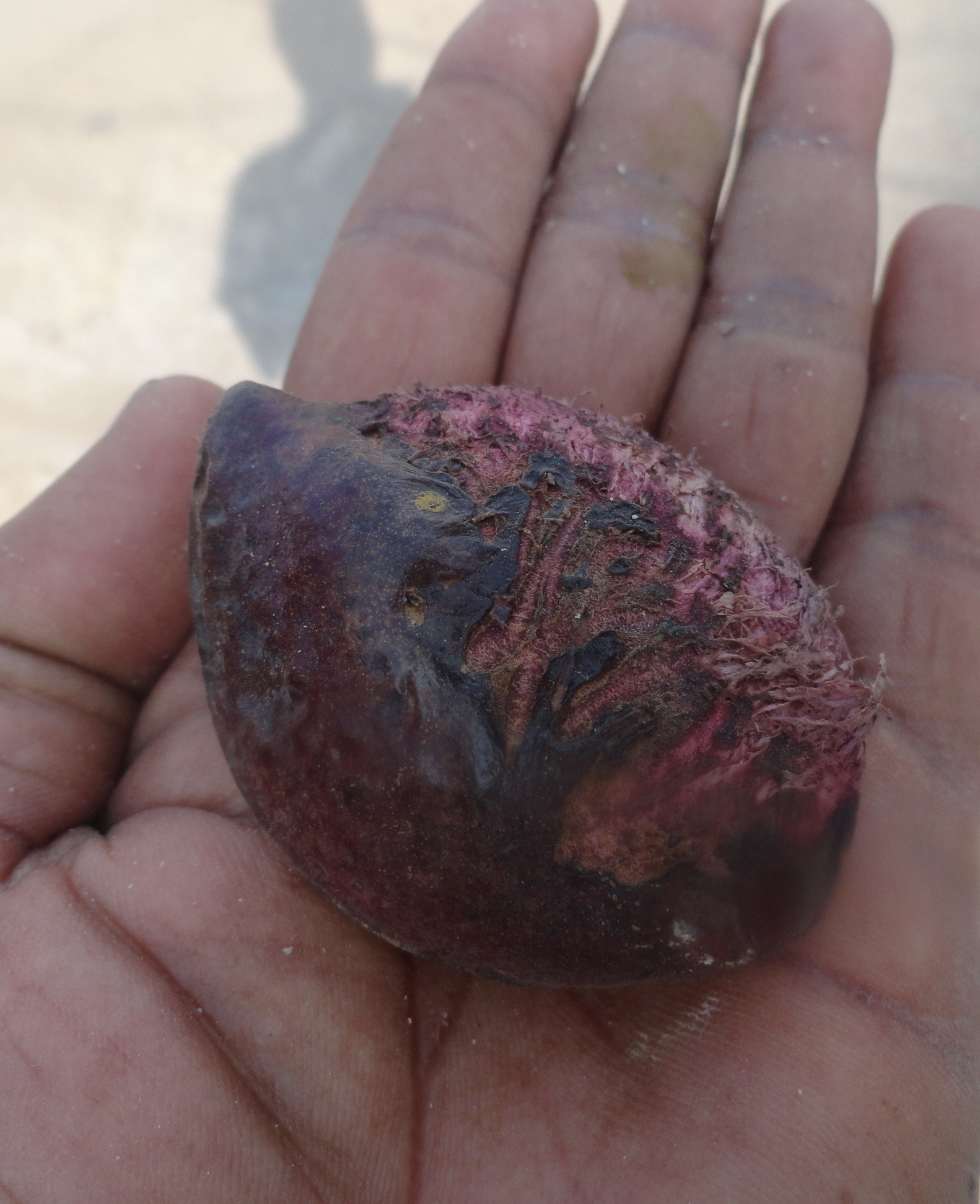 బాదం కాయ